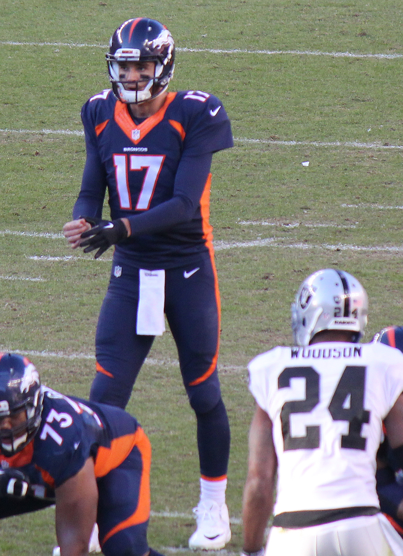 Brock Osweiler, a player on the National Football League, here serving as quarterback for the Denver Broncos on December 13, 2015 in a game against the Oakland Raaiders. The location is Sports Authority Field at Mile High in Denver, Colorado.